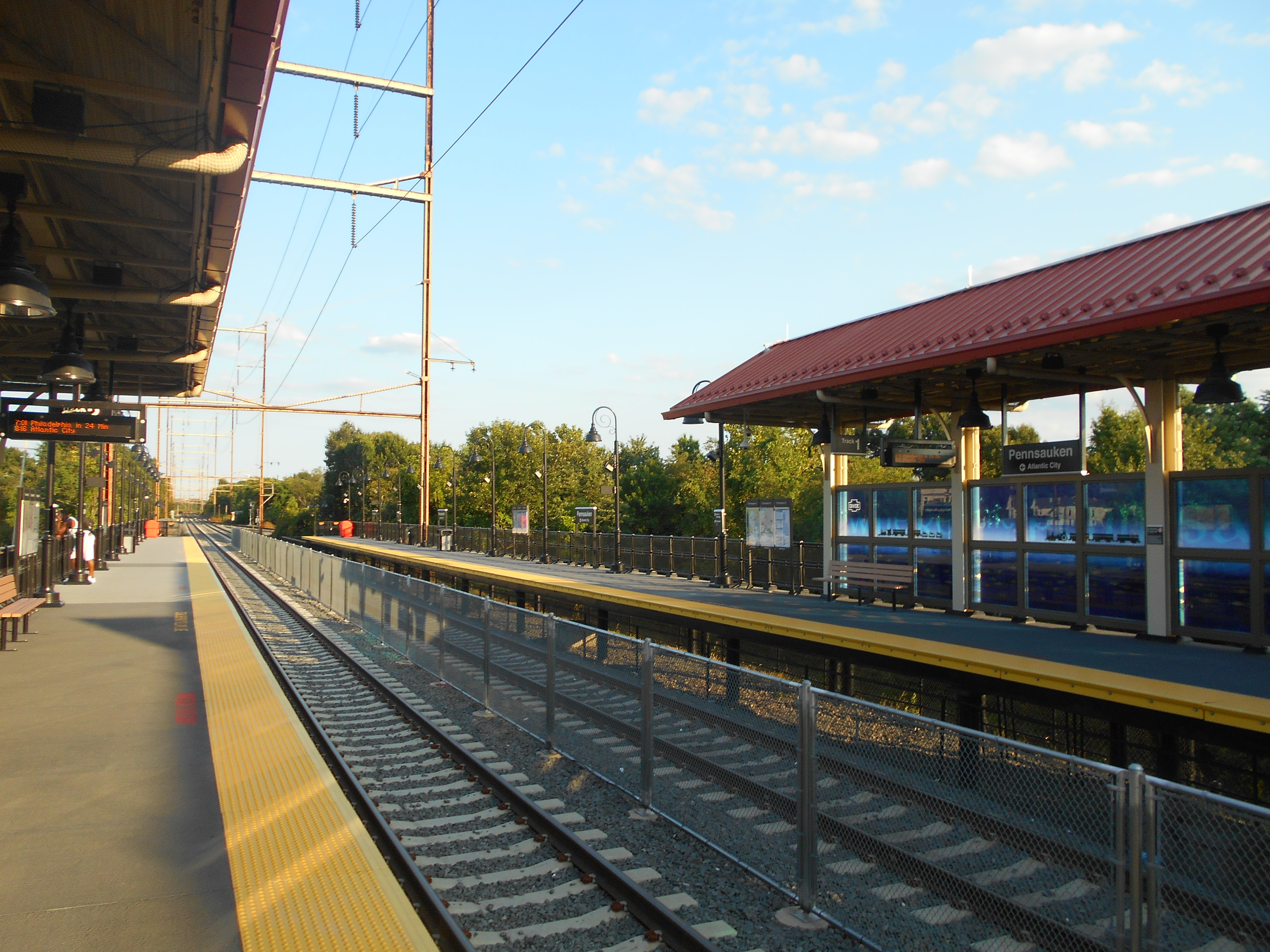 Atlantic City Line platforms at Pennsauken Transit Center in August 2014